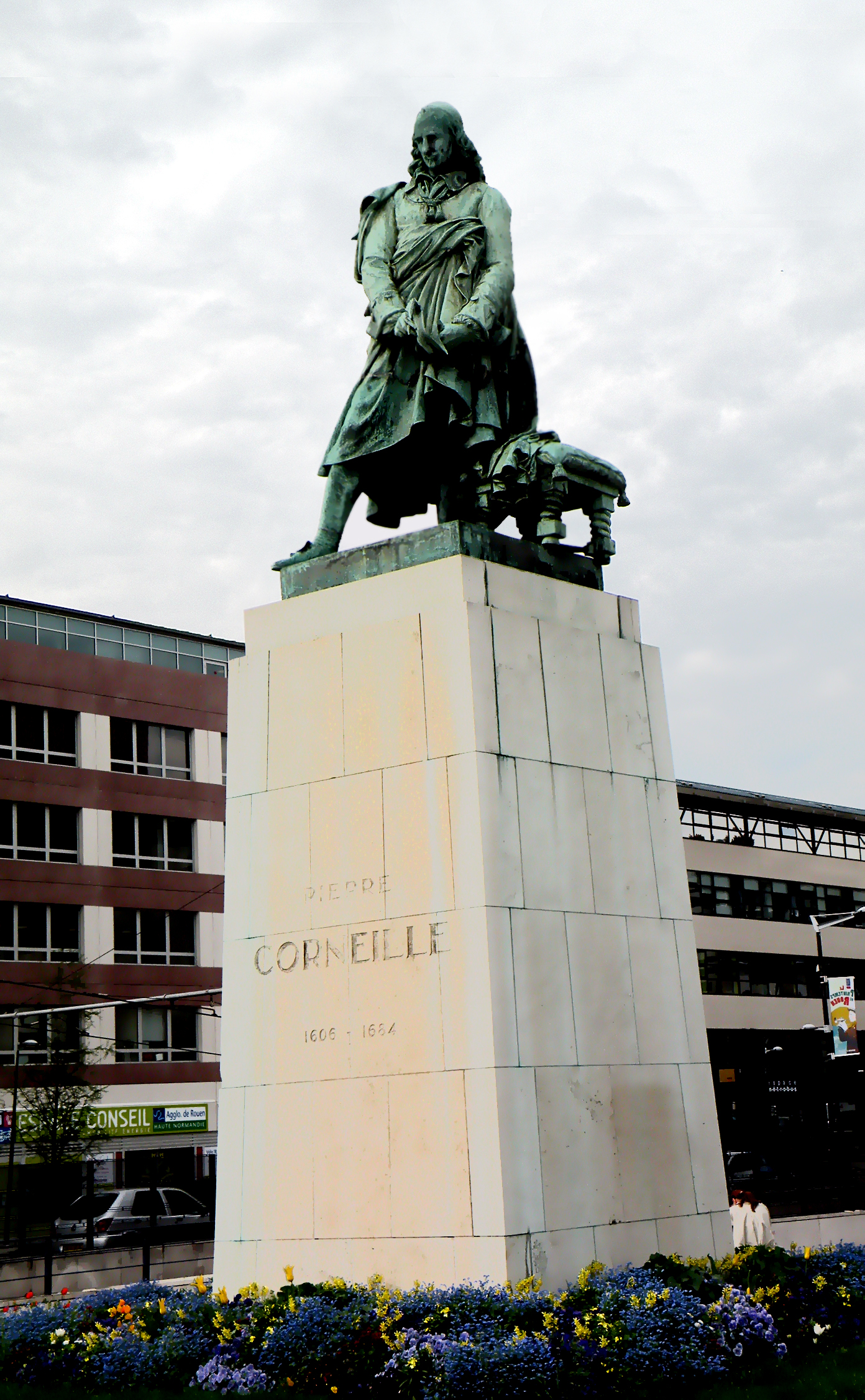 Corneille,Pierre in Rouen.